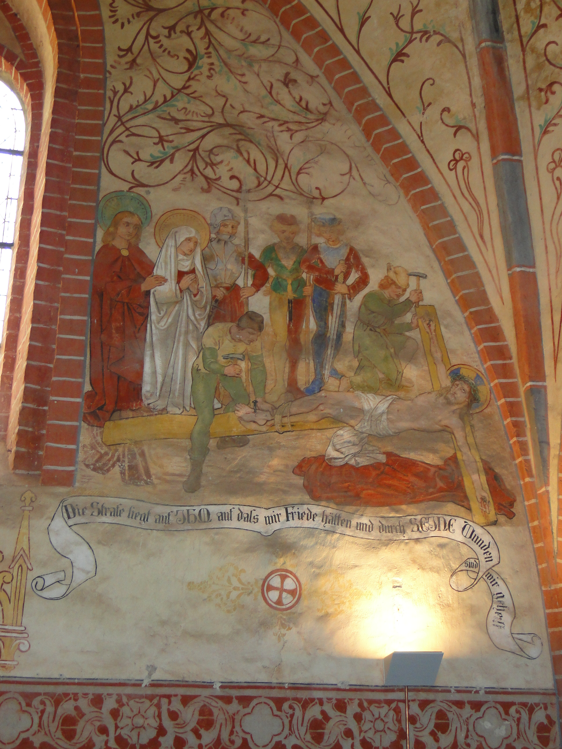 Church in Lohmen, district Güstrow, Mecklenburg-Vorpommern, Germany